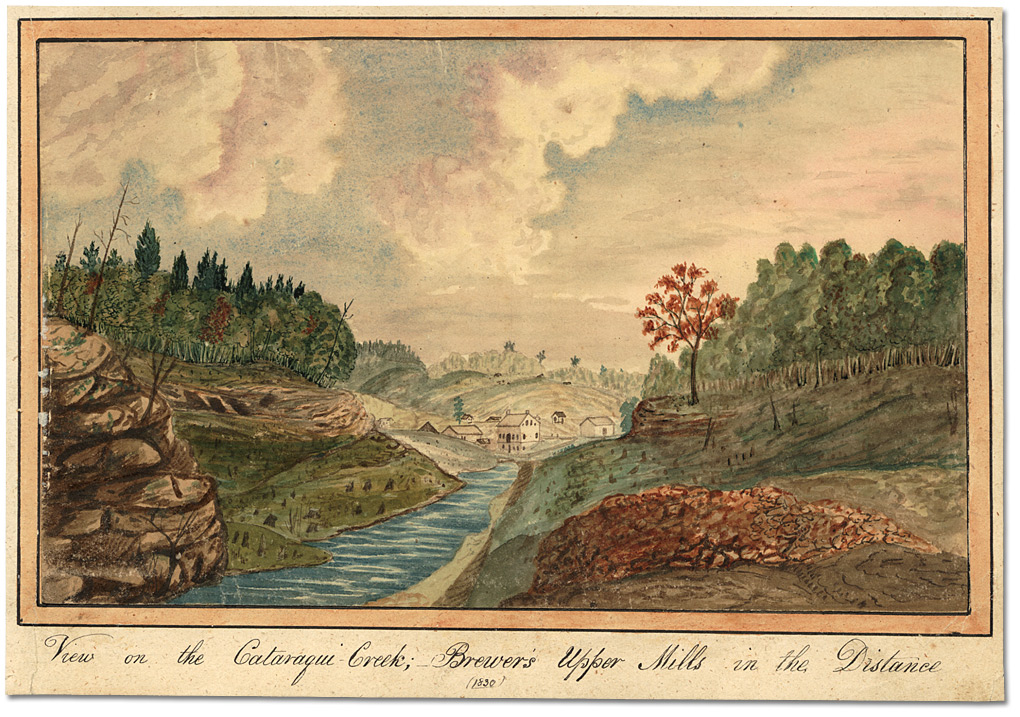 Brewer's Mills is a lockstation on the Rideau Canal, Ontario, Canada.